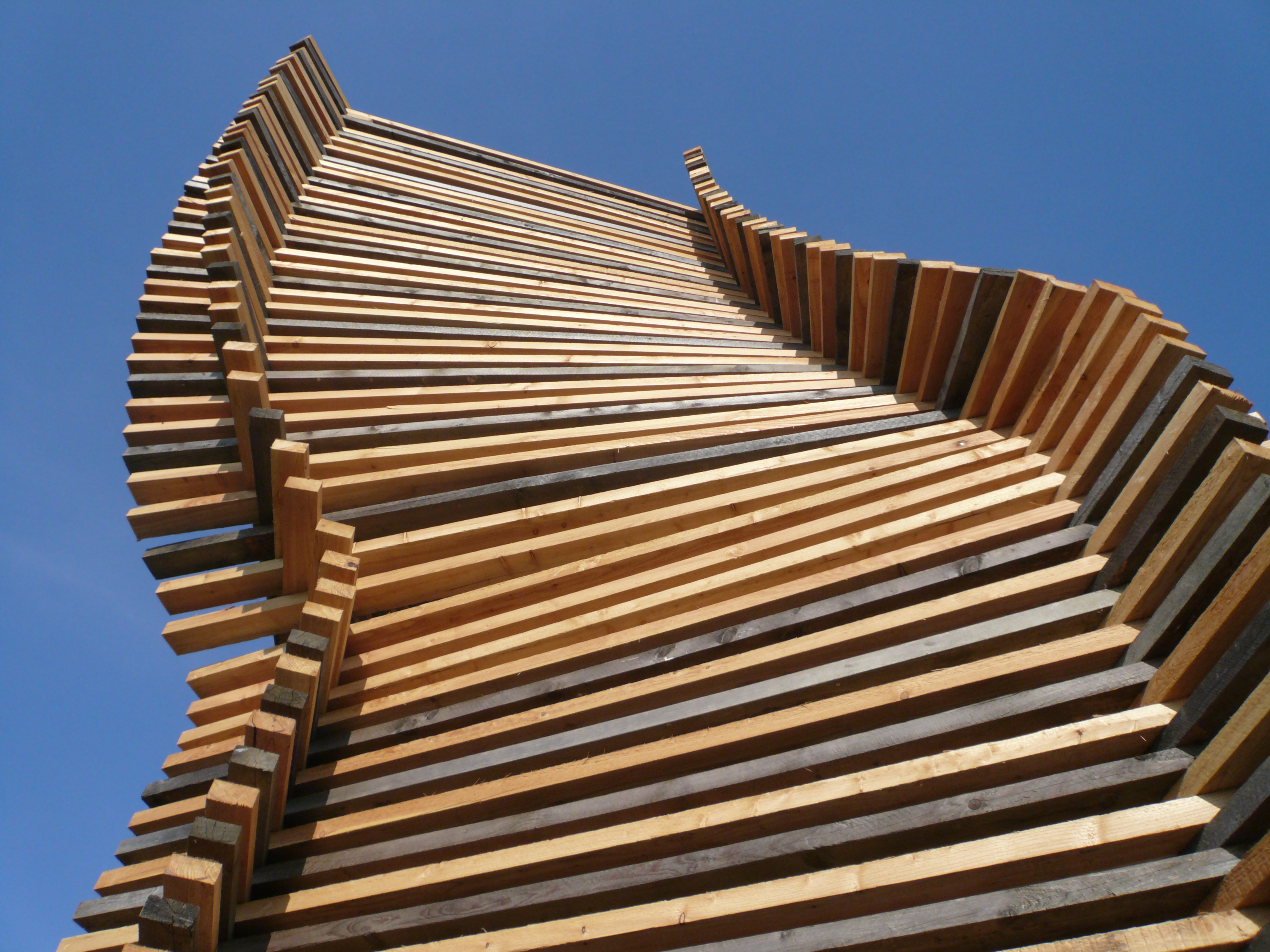 Sculpture "Stapelung 3" after reconstruction March 2009